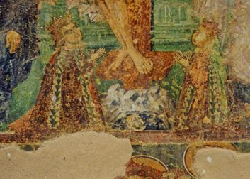 Janus of Cyprus and his wife